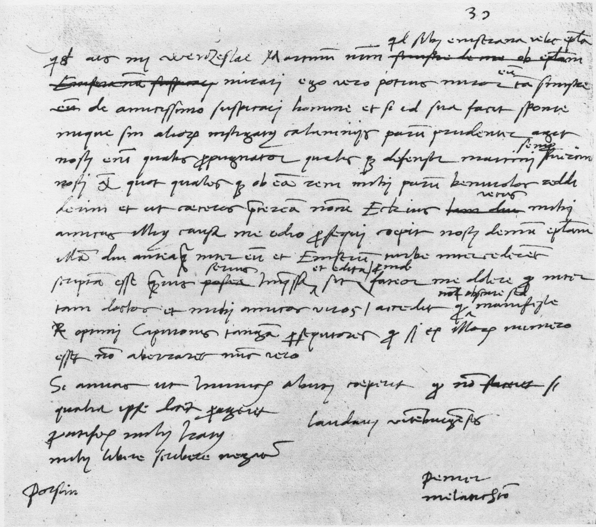 Draft of a letter of Willibald Pirckheimer. Nuremberg, Stadtbibliothek, Pirkheimerpapiere Blatt 122.